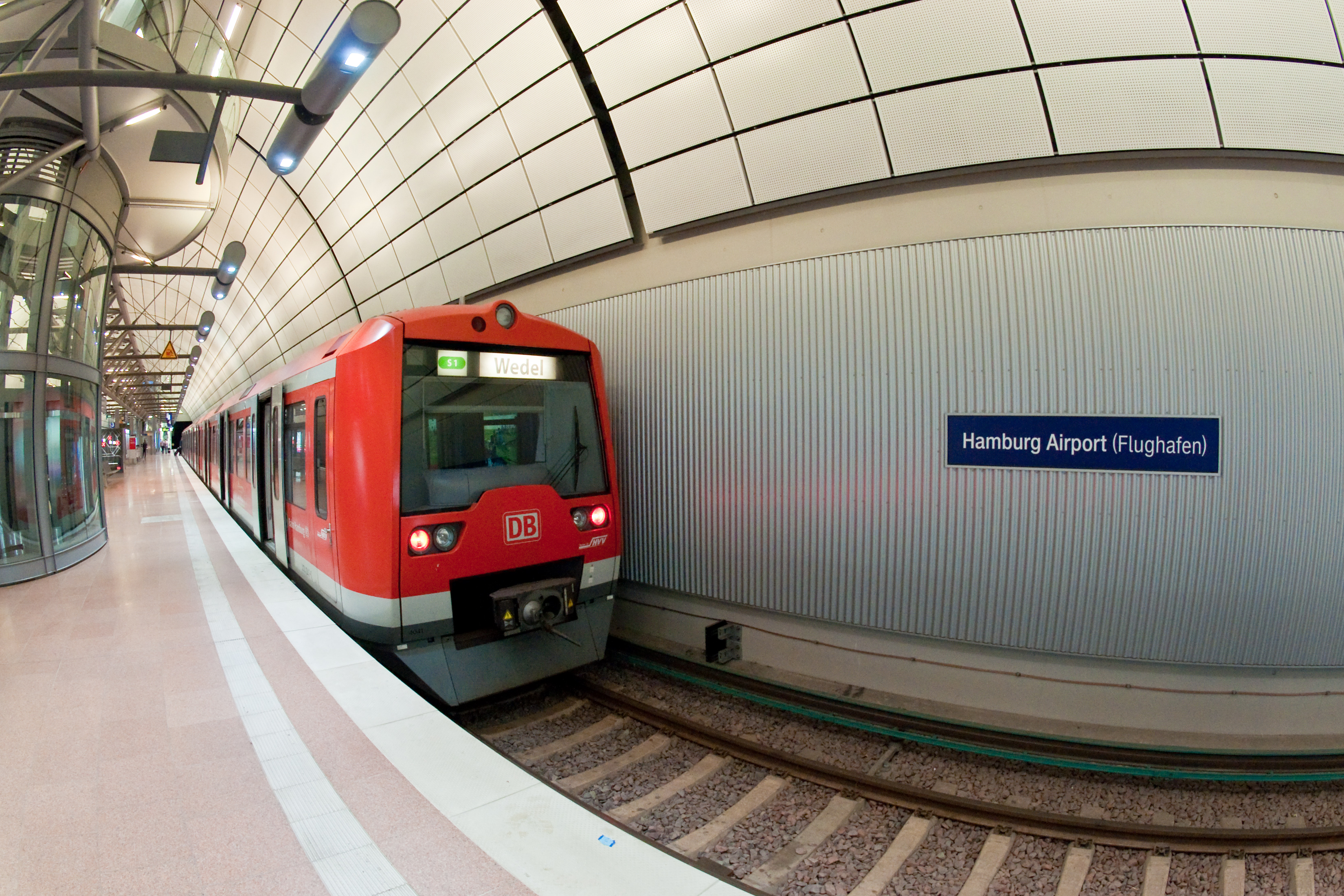 S-Bahn station in Hamburg Airport